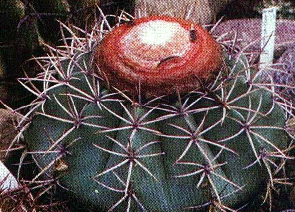 holotype specimen, coll. Pernambuco, Brasil